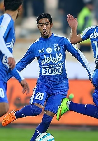 Mohsen Karimi